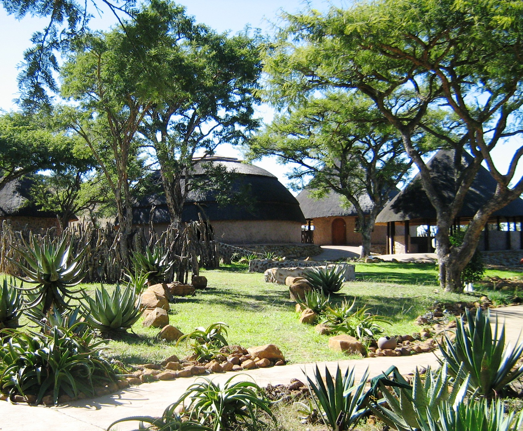 This cultural village portrays the heritage of a Zulu homestead. Guides live in the village. Cultural tours and expereince.